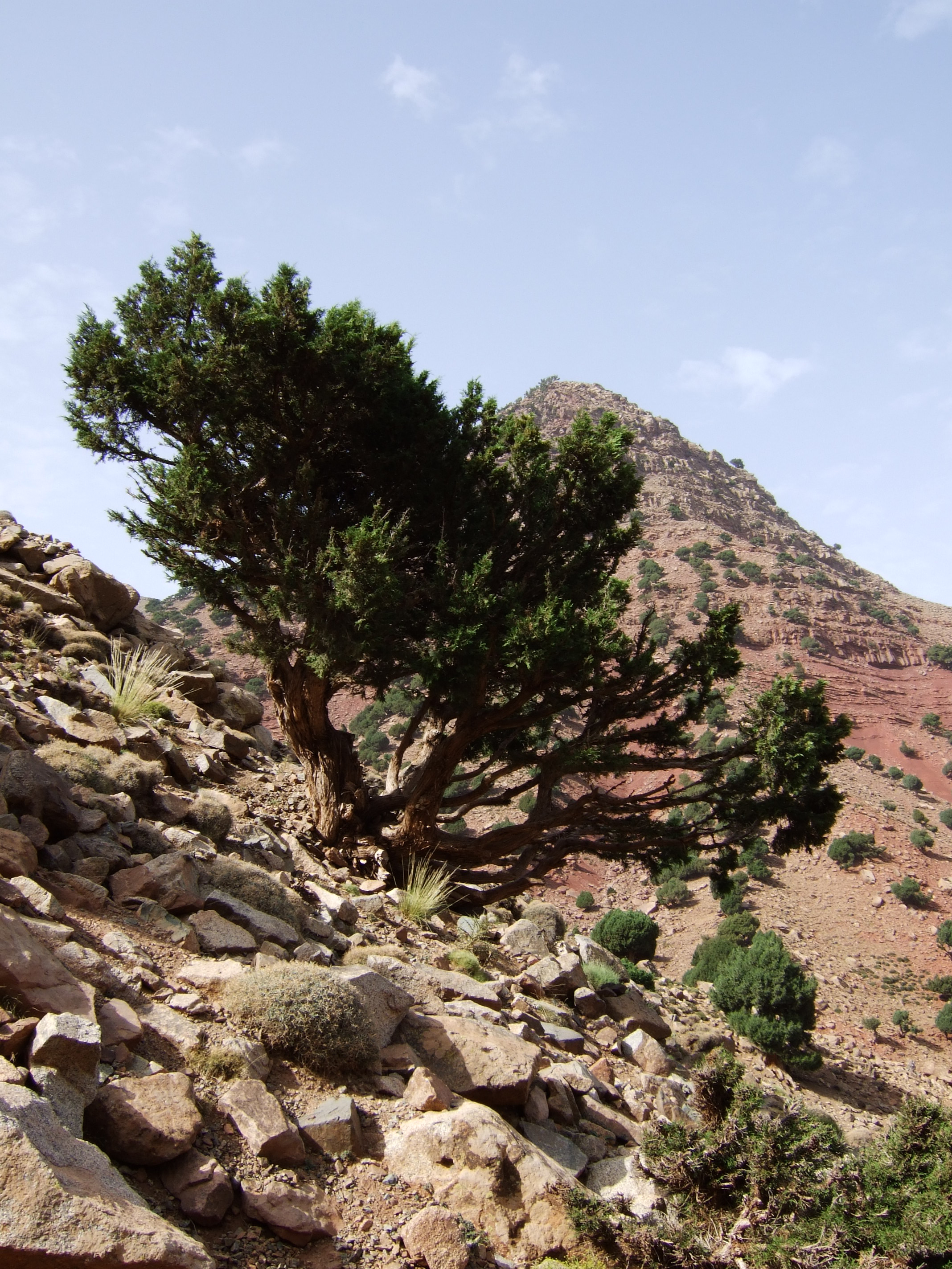 Juniperus thurifera var. africana, High Atlas, near Imlil, Morocco.